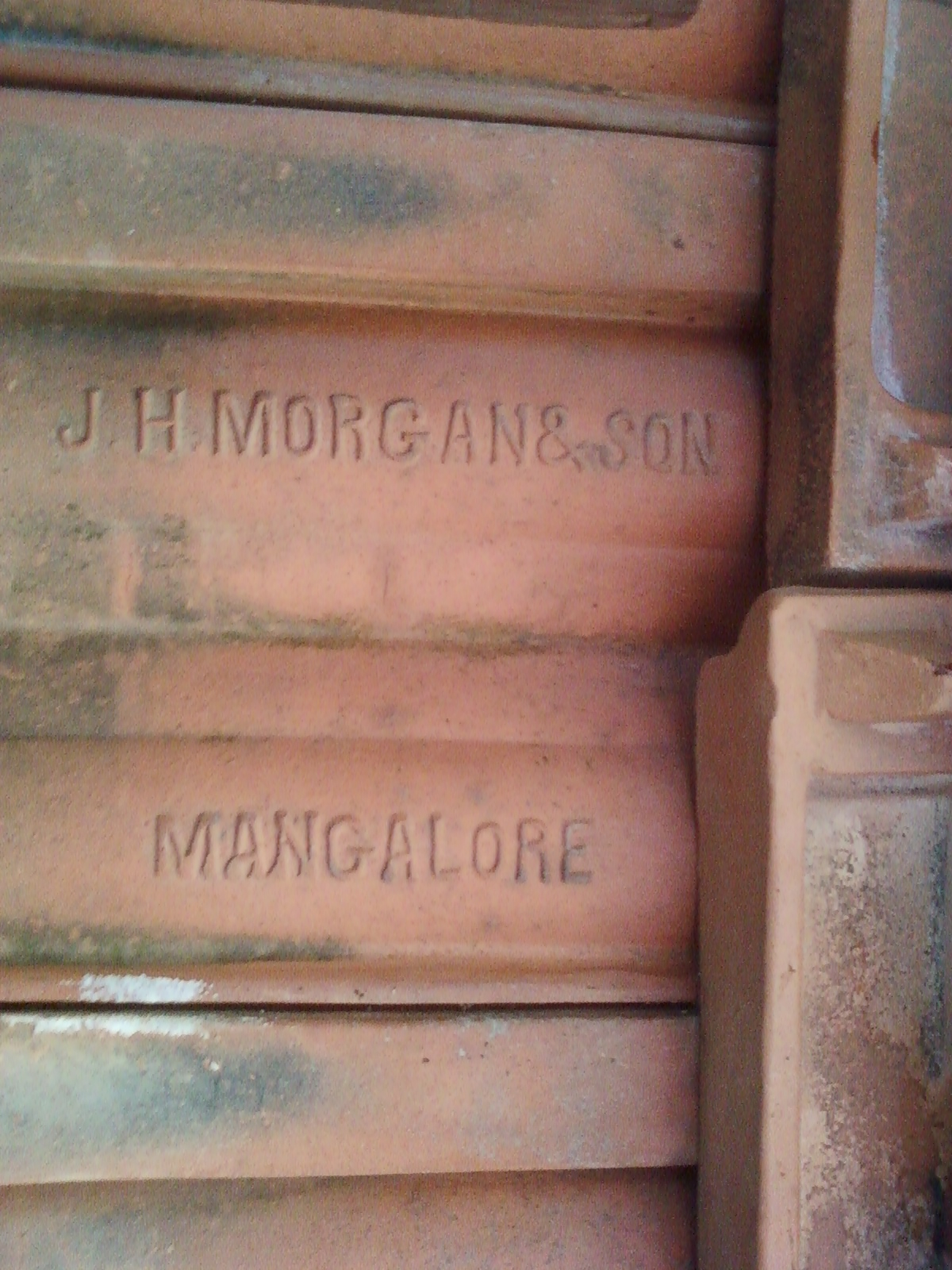 Roof tile of Thayyil Tharavadu, Kadayanickadu manufactured by J. H. Morgan & Sons Mangalore in the year 1868